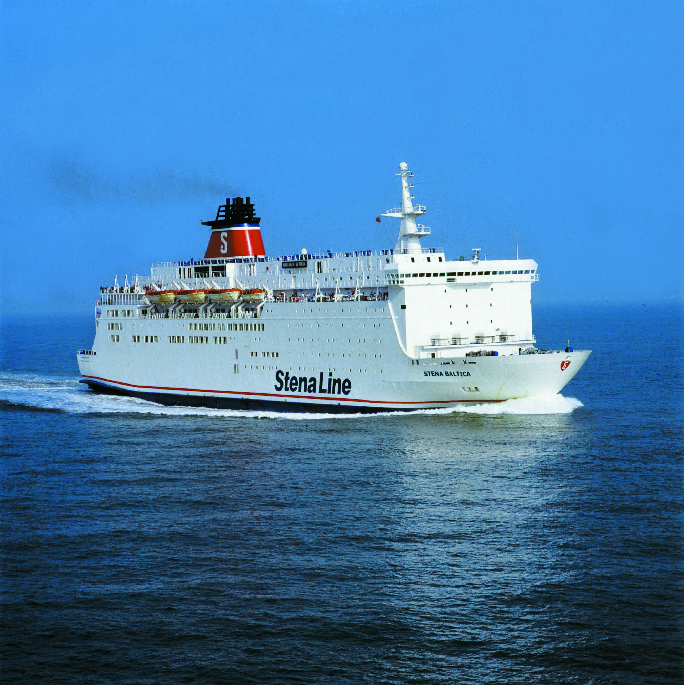 Cruiseferry MS Stena Baltica of Stena Line.